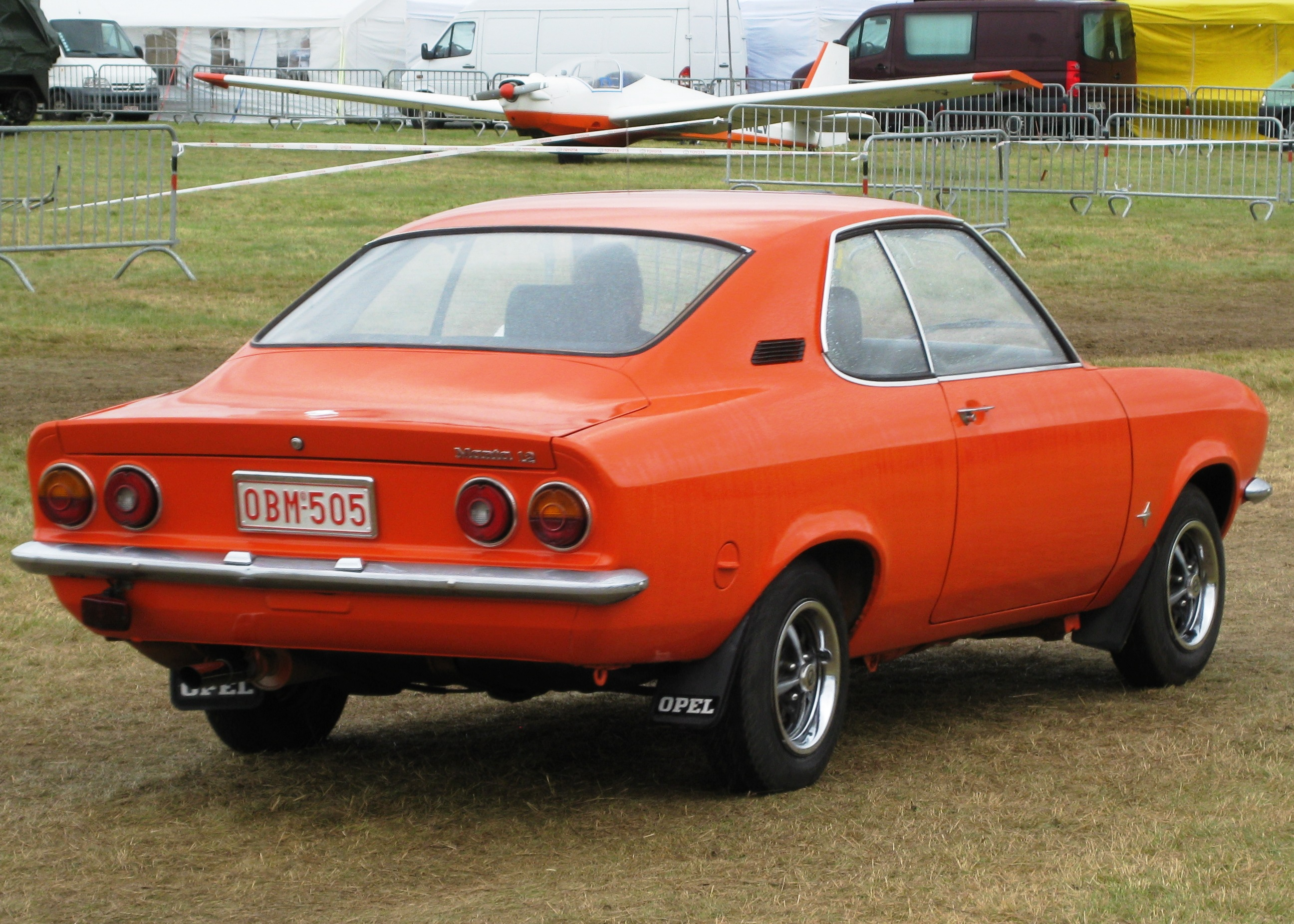 Opel Manta A heading out of Schaffen-Diest flying club